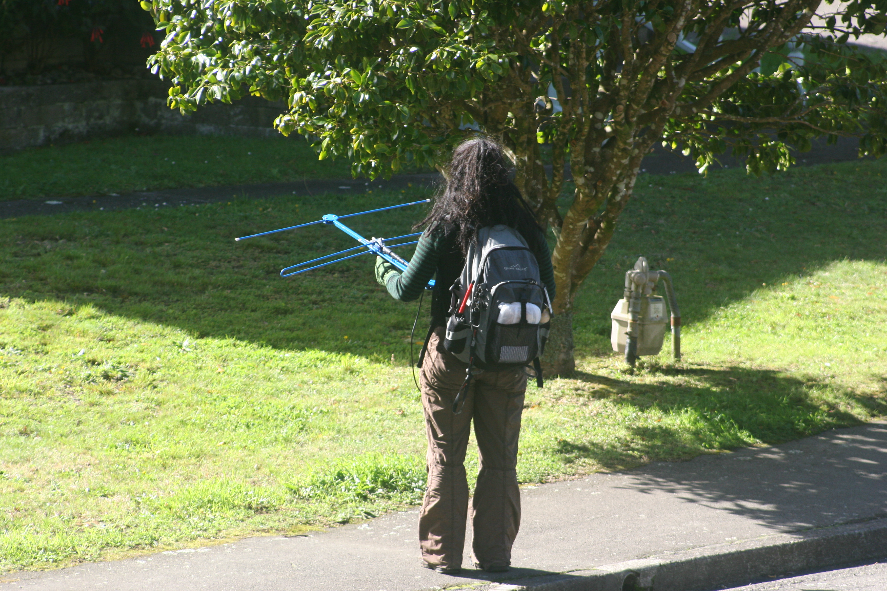 Tracking birds with transmitters and antenna attached for Zealandia wildlife sanctuary. Karori suburb, Wellington, New Zealand.